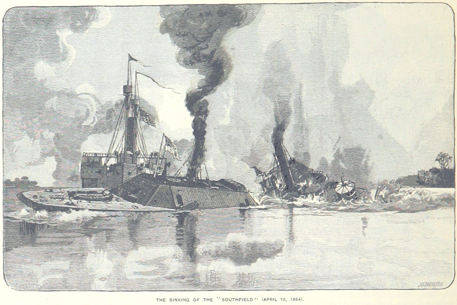 The Confederate ram CSS Albemarle rams and sinks the Union gunboat USS Southfield on 18 April 1864.